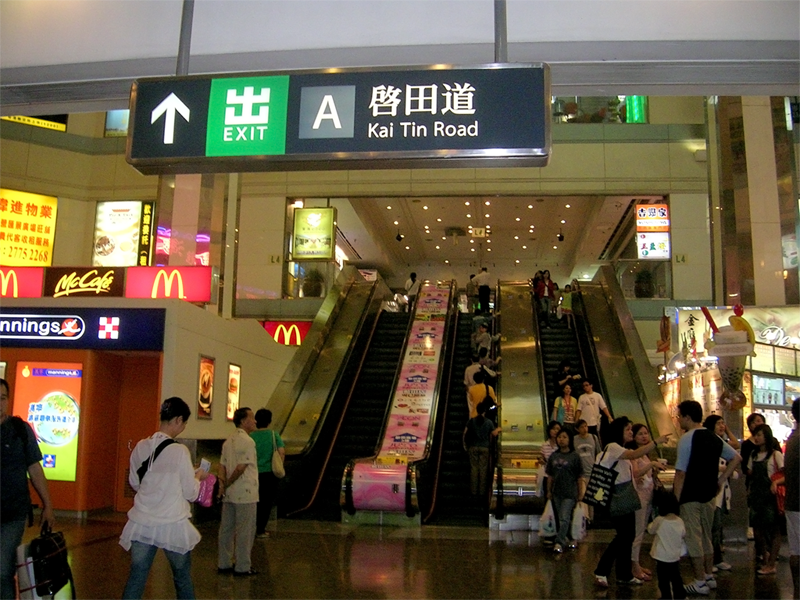 Picture shows the Sceneway Plaza escalator area.